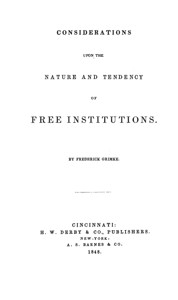 title page of a book by Chillicothe, Ohio resident Frederick Grimke